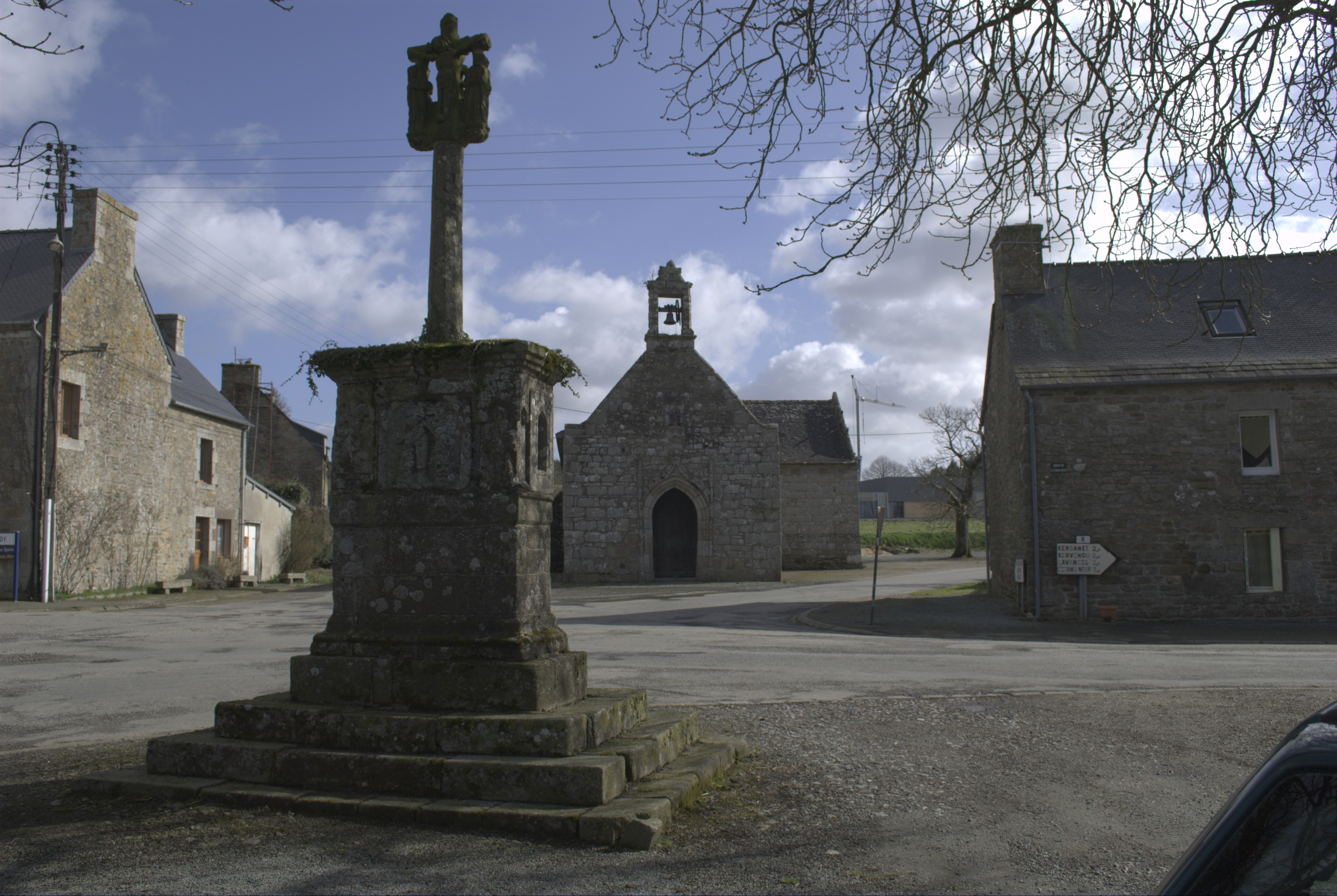 Chapel and cross of Saint-Yves in the village of Plésidy(France).